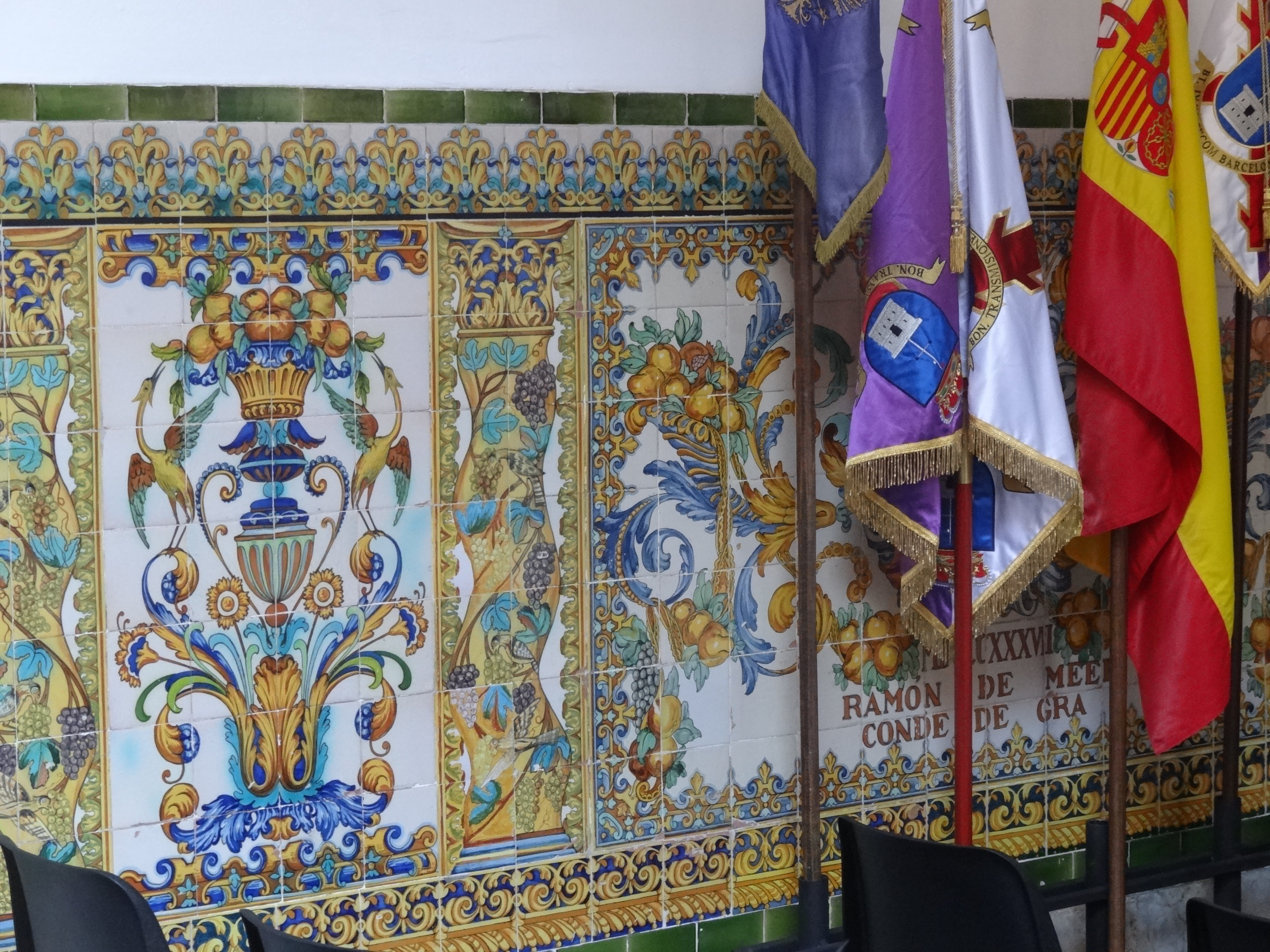 Decorated tiles at the cloister of the former Convent de la Mercè, Capitania General de Barcelona